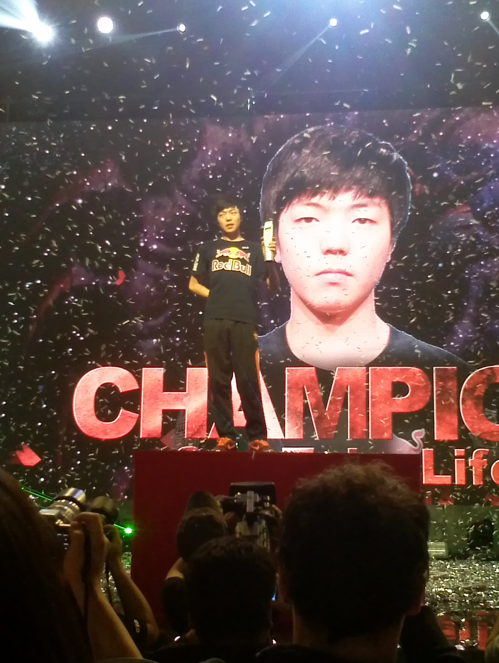 Starcraft 2 Progamer Startale life